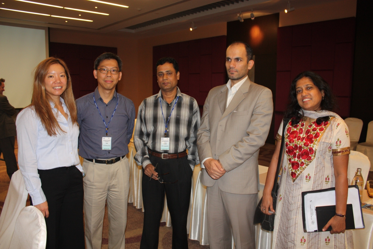 News Group delegates 2010